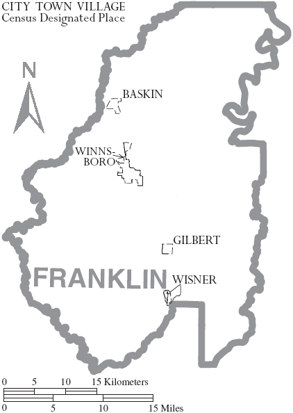 Map of Franklin Parish, Louisiana, United States with municipal boundaries